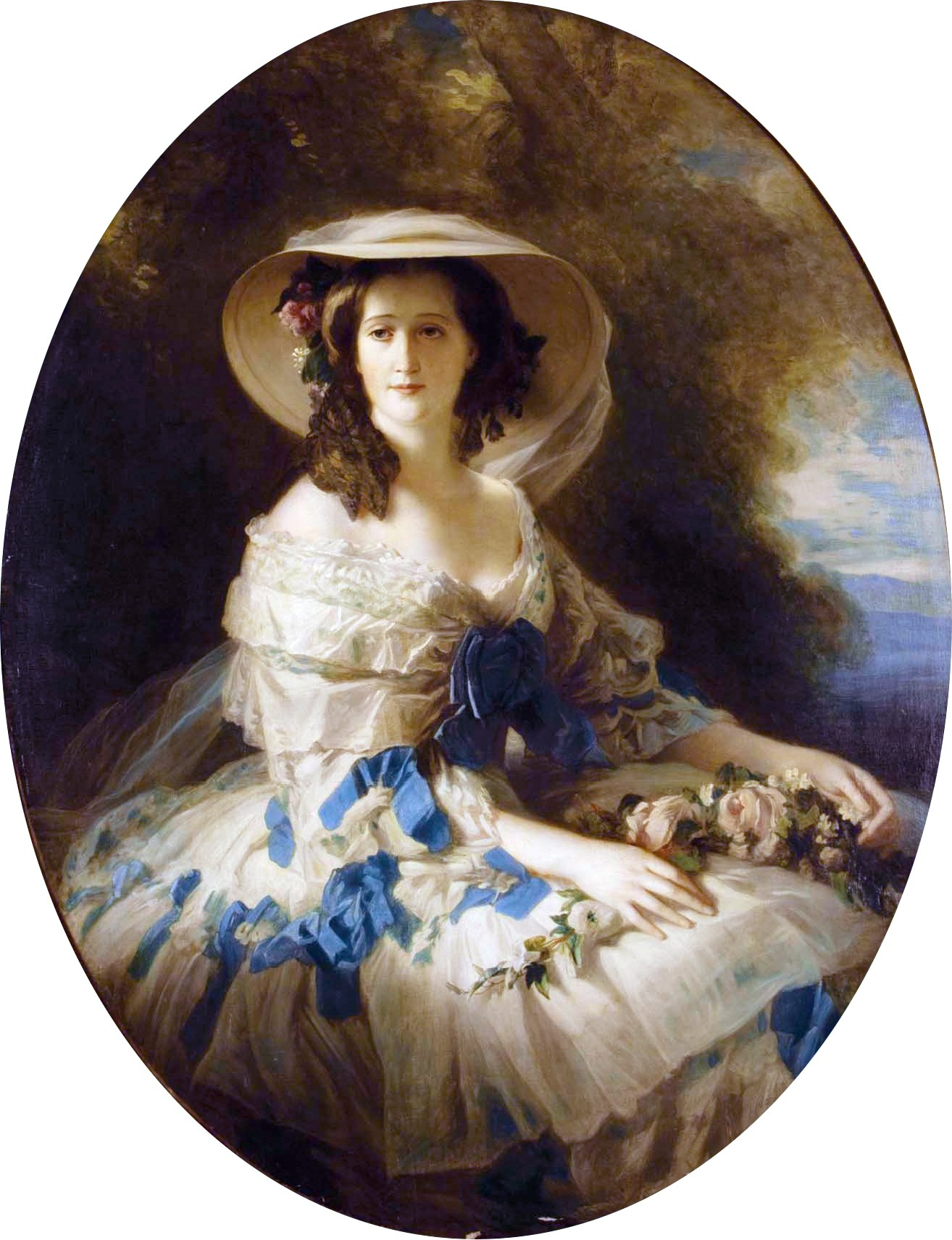 Empress Eugénie oil on canvas 142 x 111 cm